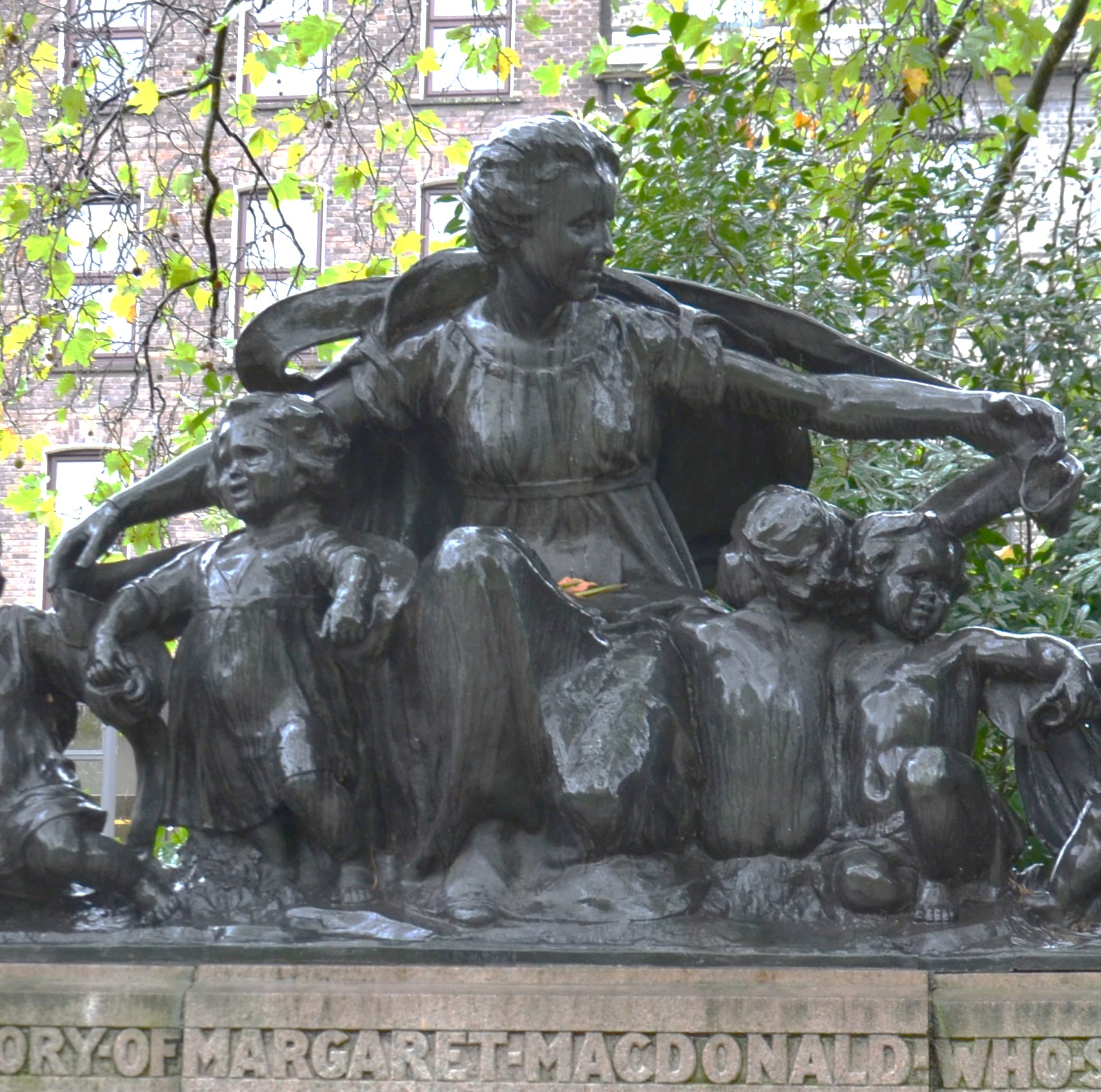 Detail of sculpture of Margaret MacDonald at Lincoln's Inn Fields by Richard Reginald Goulden